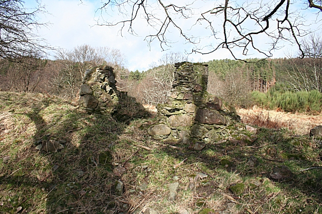 Remains of Aikenway Castle These two scraps of masonry are apparently all that remains standing of Aikenway Castle, which must in its heyday have been a formidable fortress.